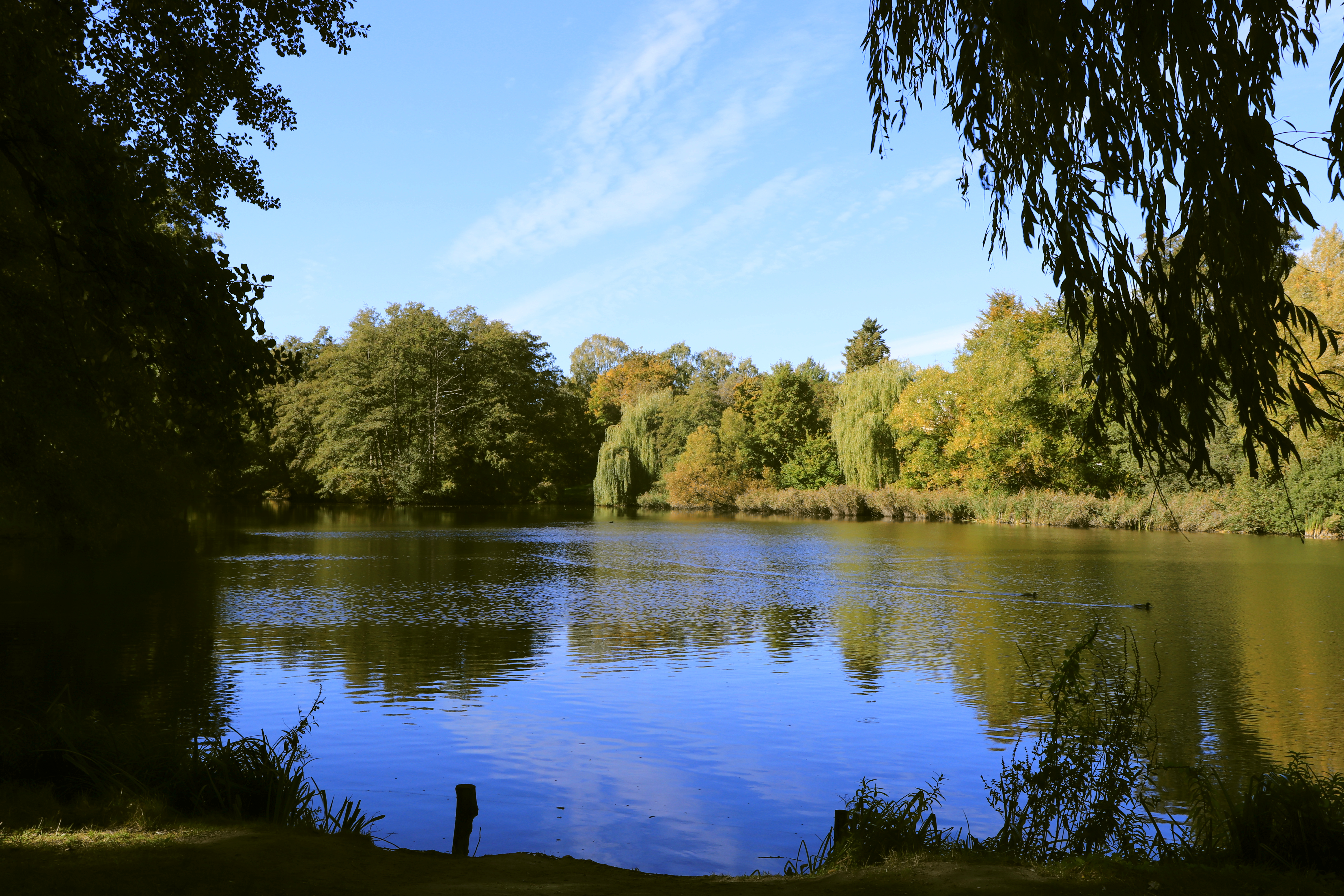 Hamburg, district Harburg, township Eissendorf, Lohmuehlenteich in Goehlbachtal